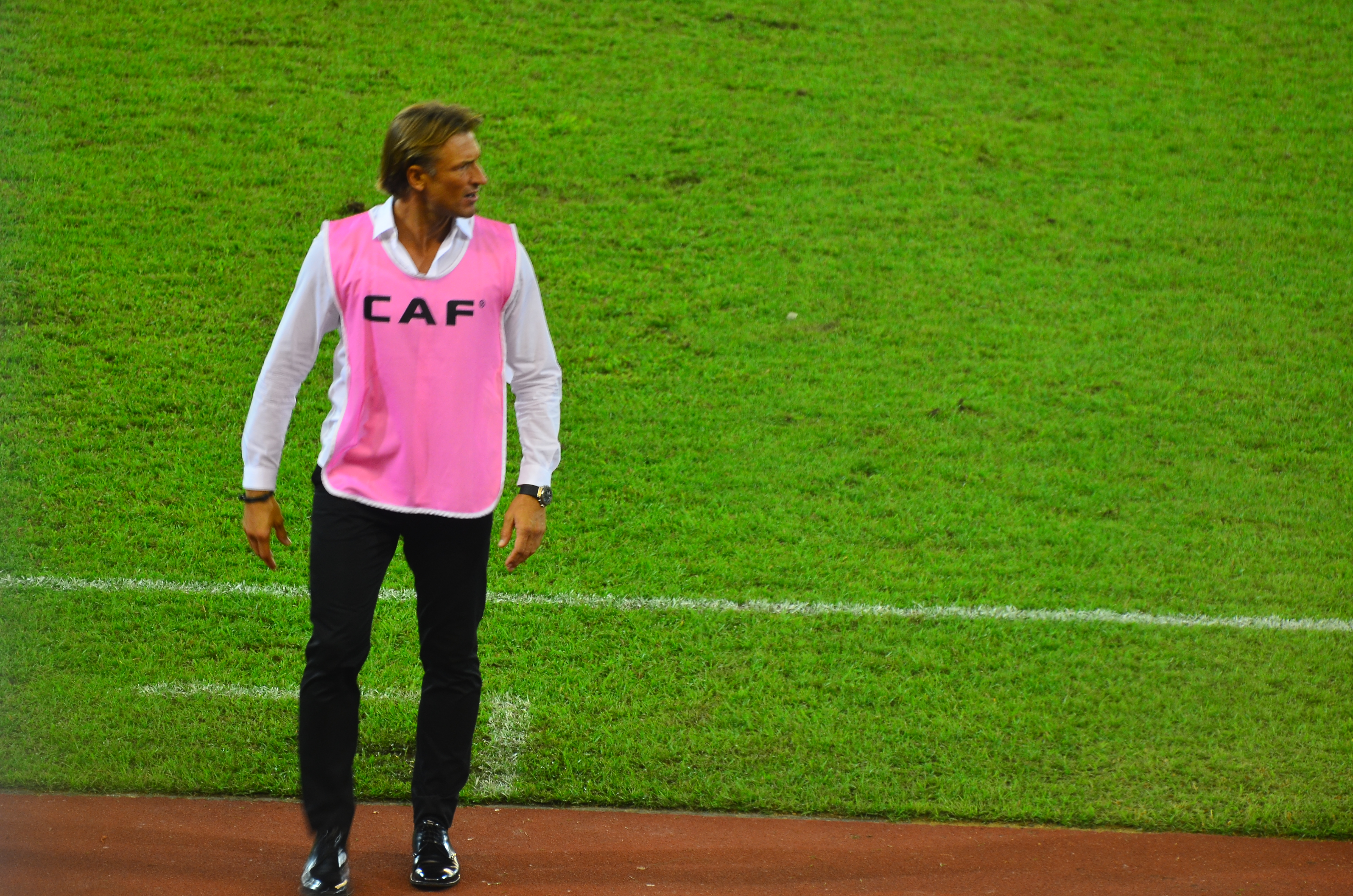 This is a picture of a soccer game (name of it is on file name).